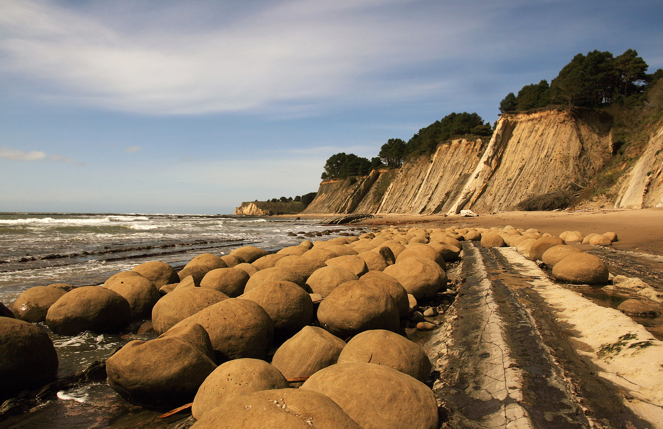 Bowling Balls Beach in Mendocino county, California, USA. Concretions on Bowling Balls Beach (Mendocino County, California) were weathered out of steeply-tilted Cenozoic mudstone